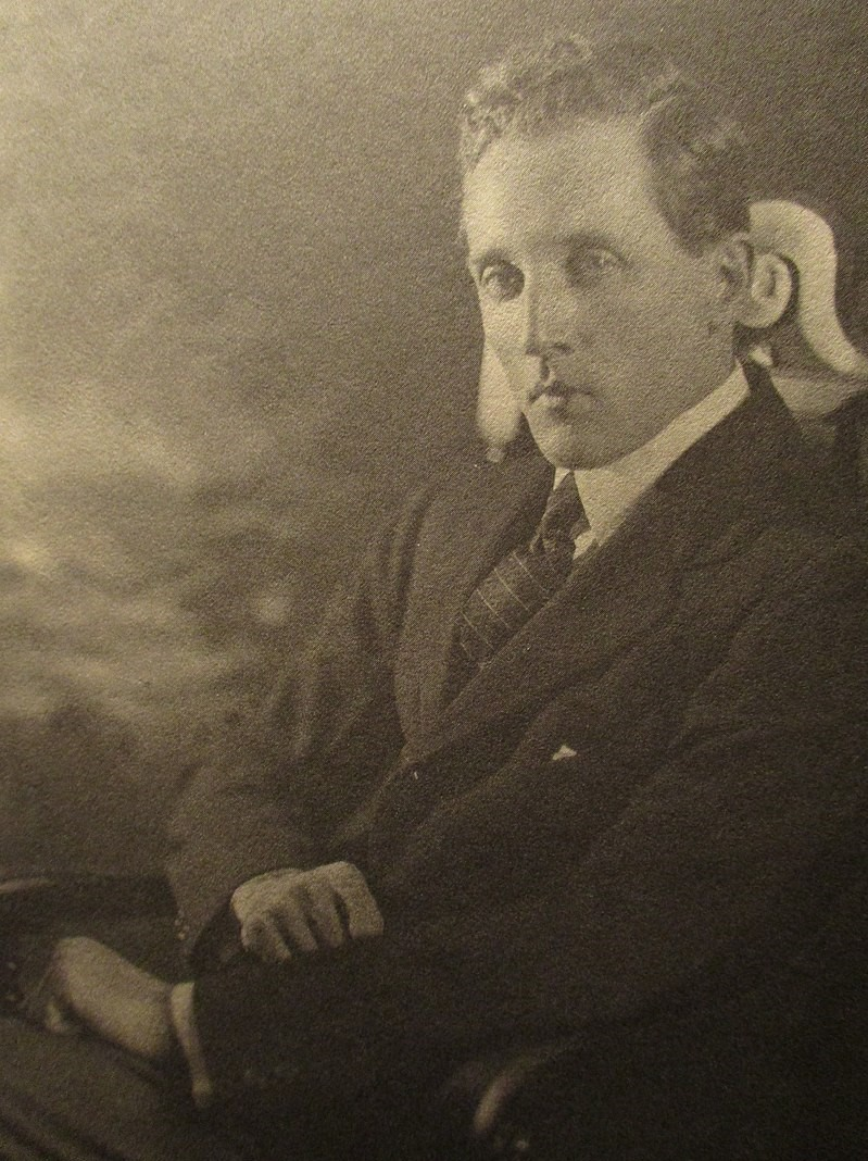 Circa 1923